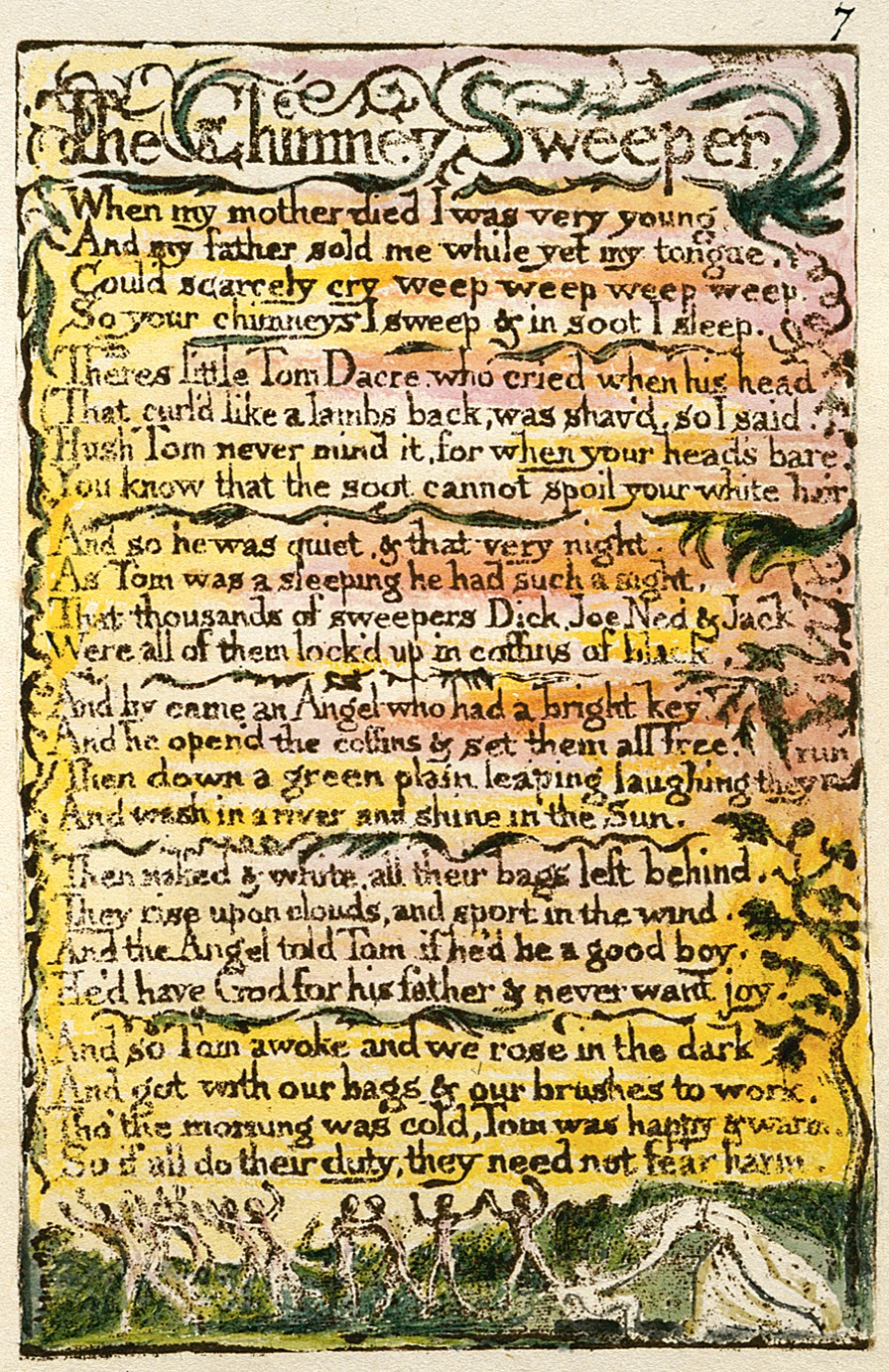 Songs of Innocence and of Experience, copy L, object 7 (Bentley 12, Erdman 12, Keynes 12) "The Chimney Sweeper"